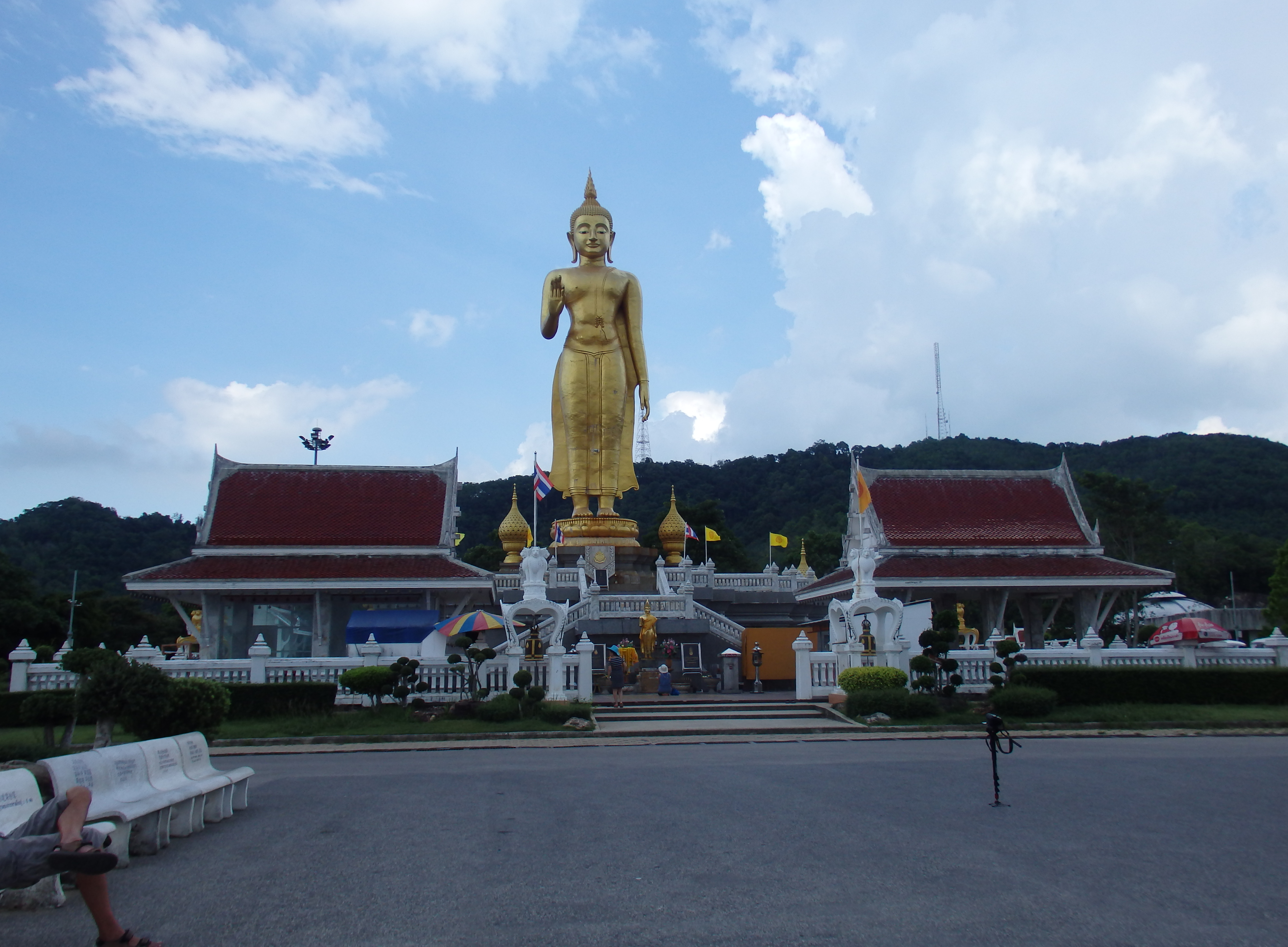 Kho Hong, Hat Yai District, Songkhla, Thailand